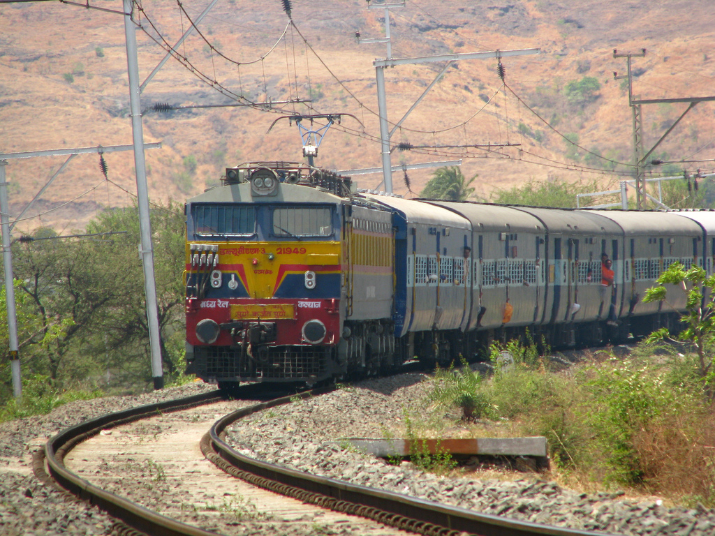 The Pune Karjat passenger enters Ghorawadi station with KYN WCAM3 #21949 in-charge.